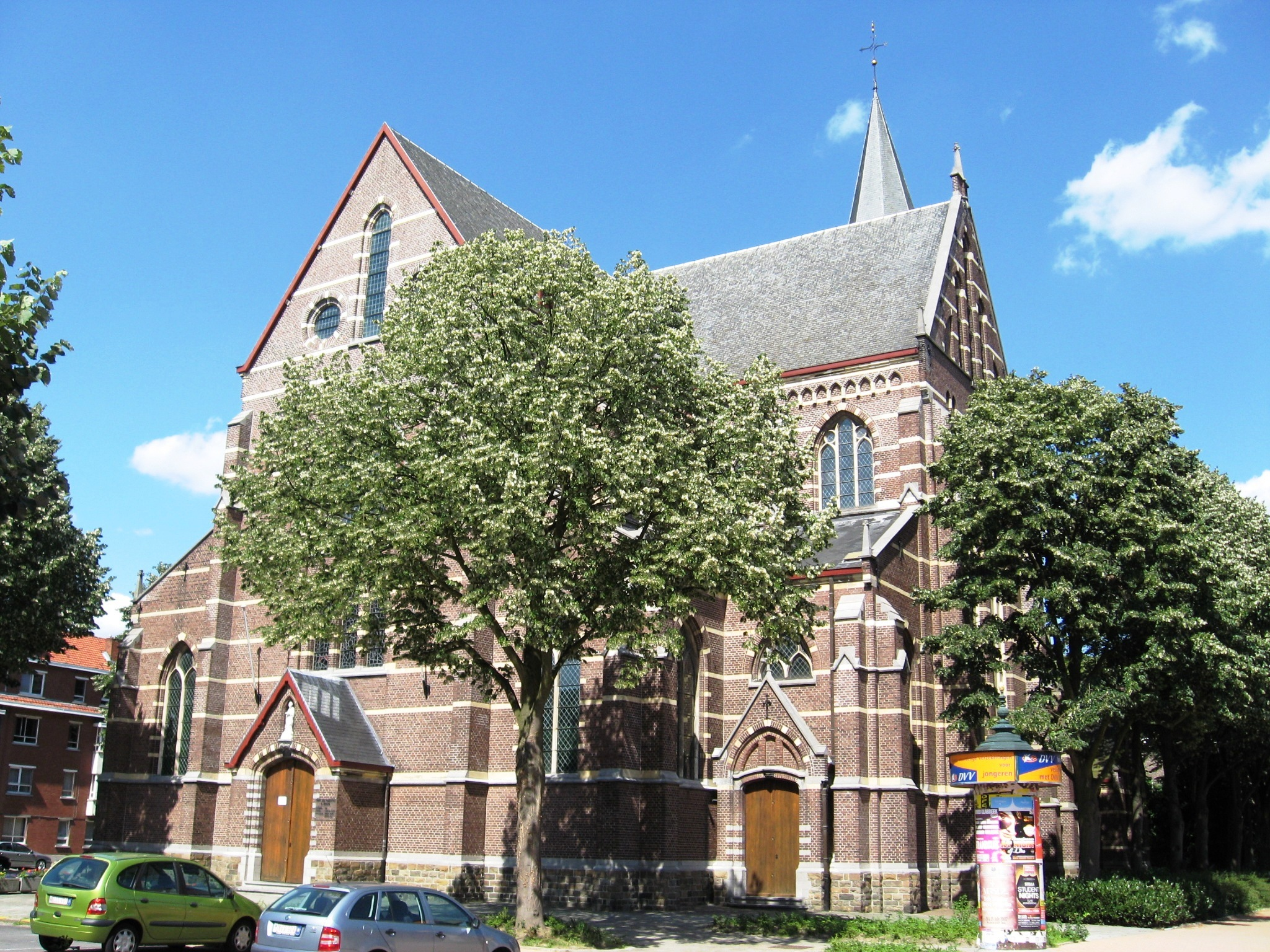 Church of Saint Hubert in Hasselt (Runkst), Limburg, Belgium